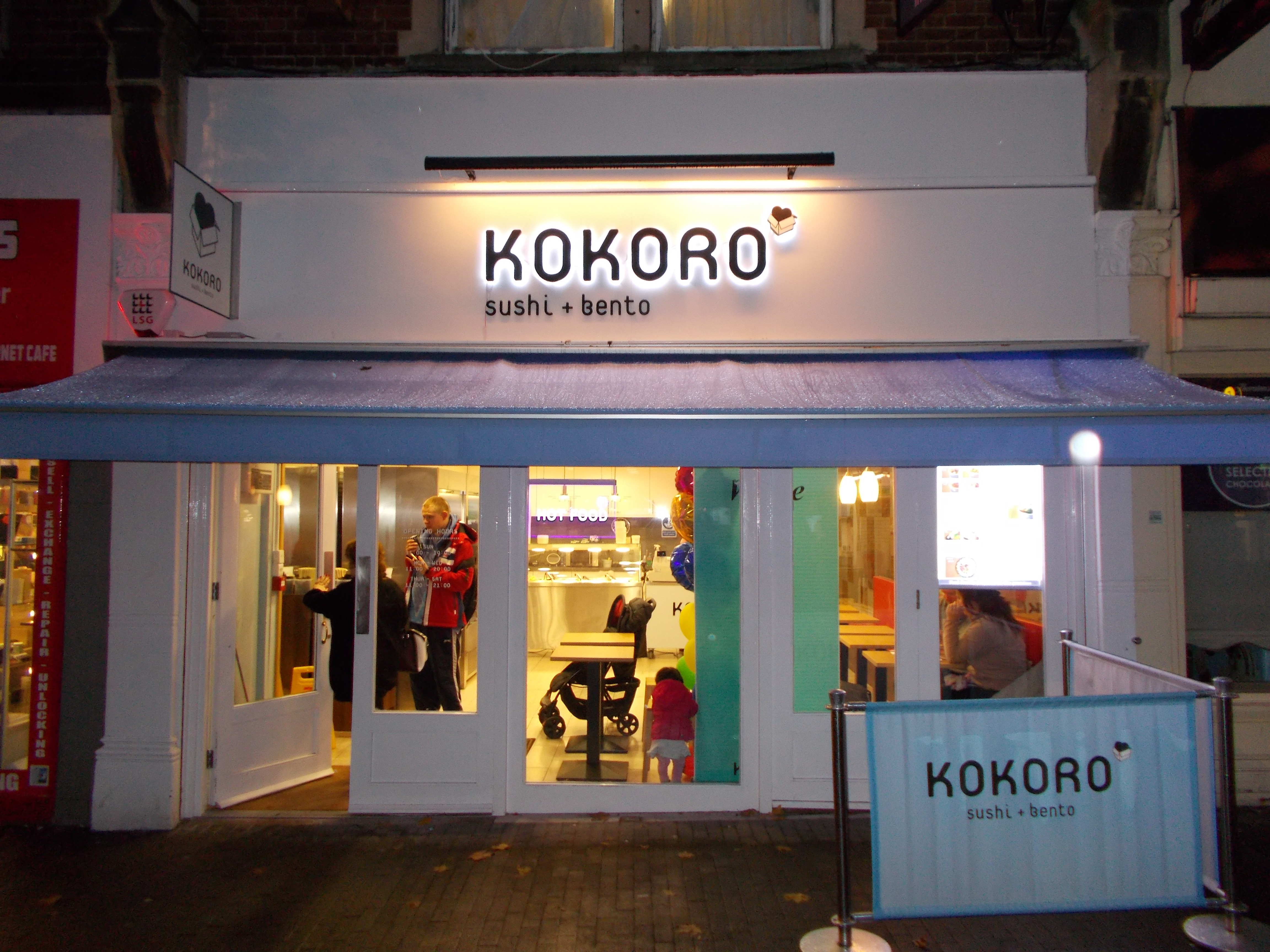 Kokoro Sushi and Bento restaurant, Sutton High Street, Sutton, Surrey, Greater London. Opened in November 2014.